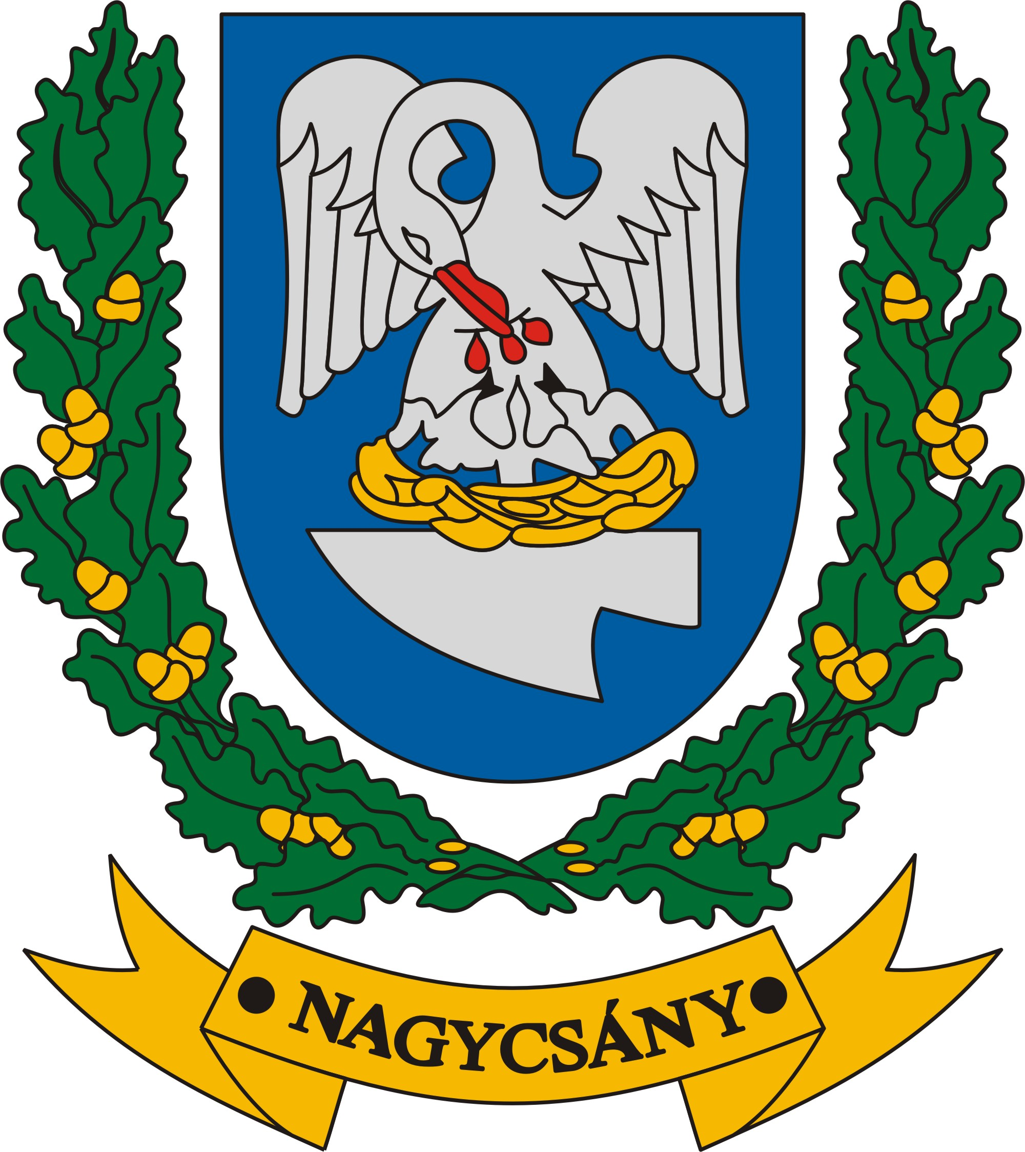 Coat of arms of Nagycsány, Hungary